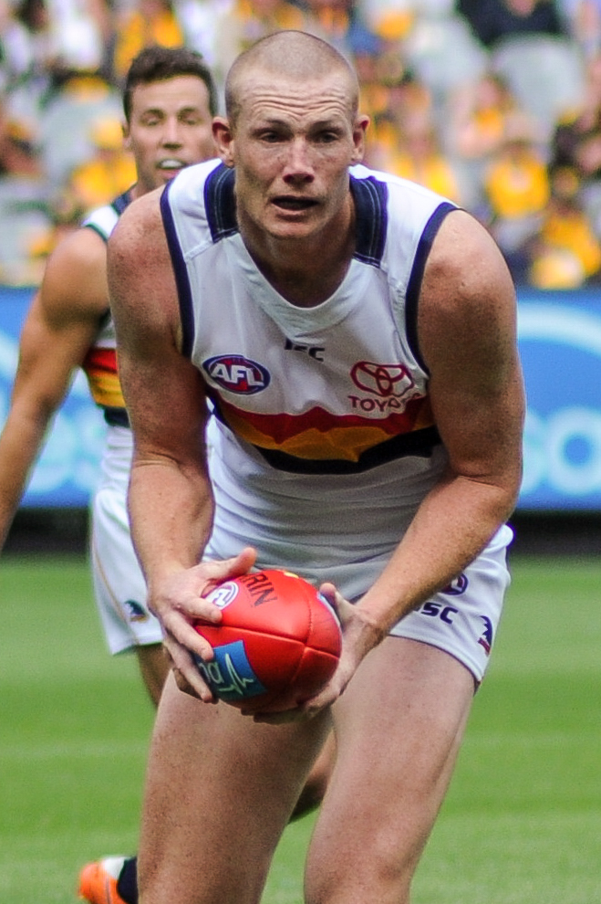 Sam Jacobs during the AFL round two match between Hawthorn and Adelaide on 1 April 2017 at the Melbourne Cricket Ground in Melbourne, Victoria.